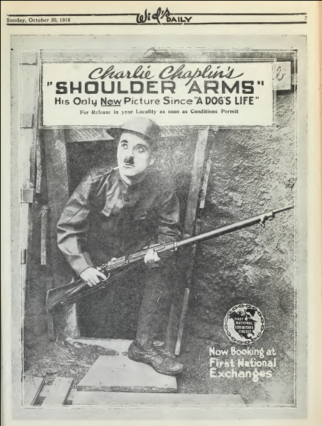 Advertisement for Shoulder Arms (1918), a film directed by Charlie Chaplin